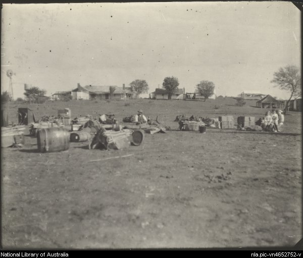 Joseph Breaden's Todmorden Station, 70 miles from Oodnadatta, South Australia